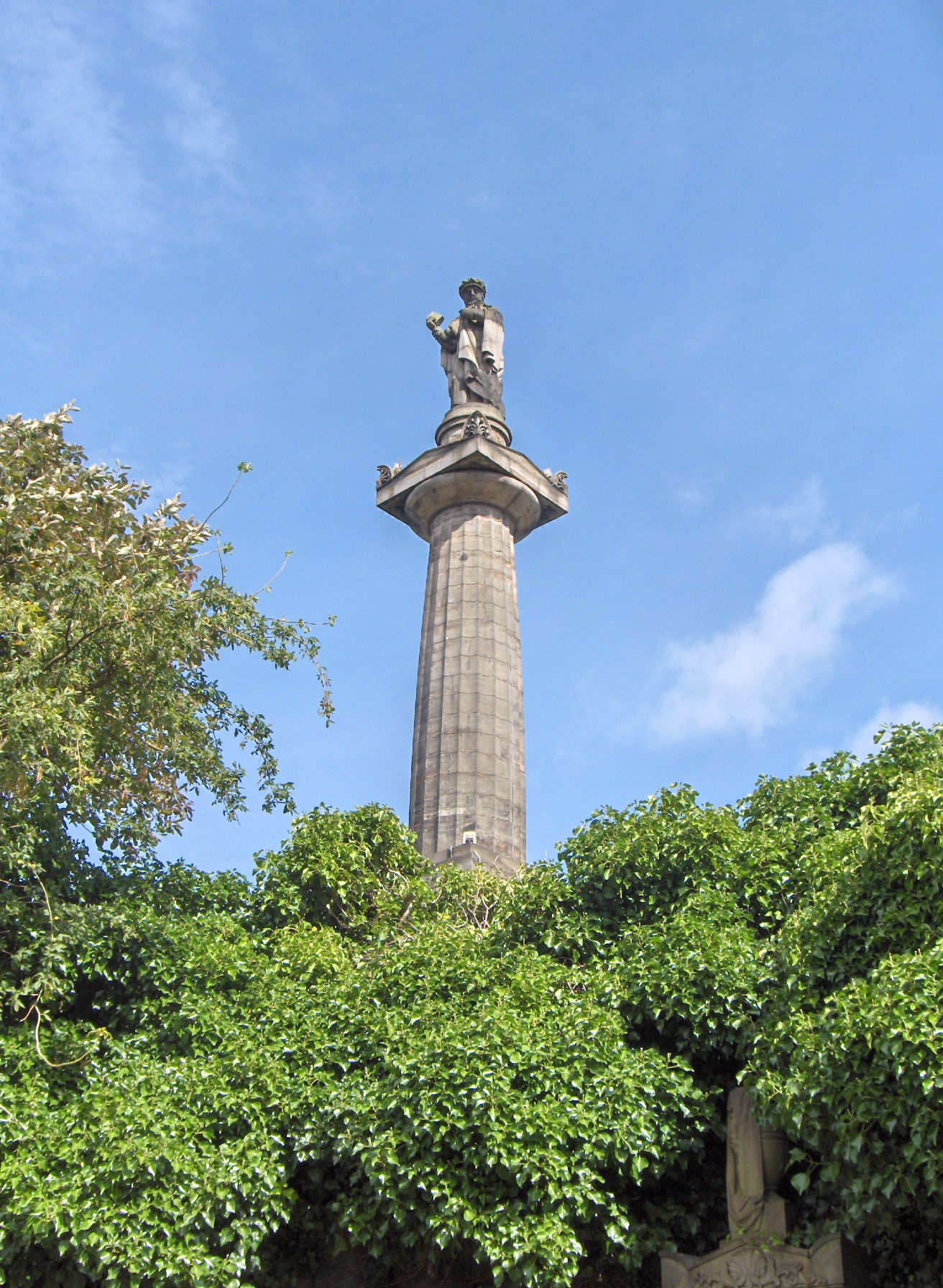 Memorial for John Knox at Glasgow Nekropolis